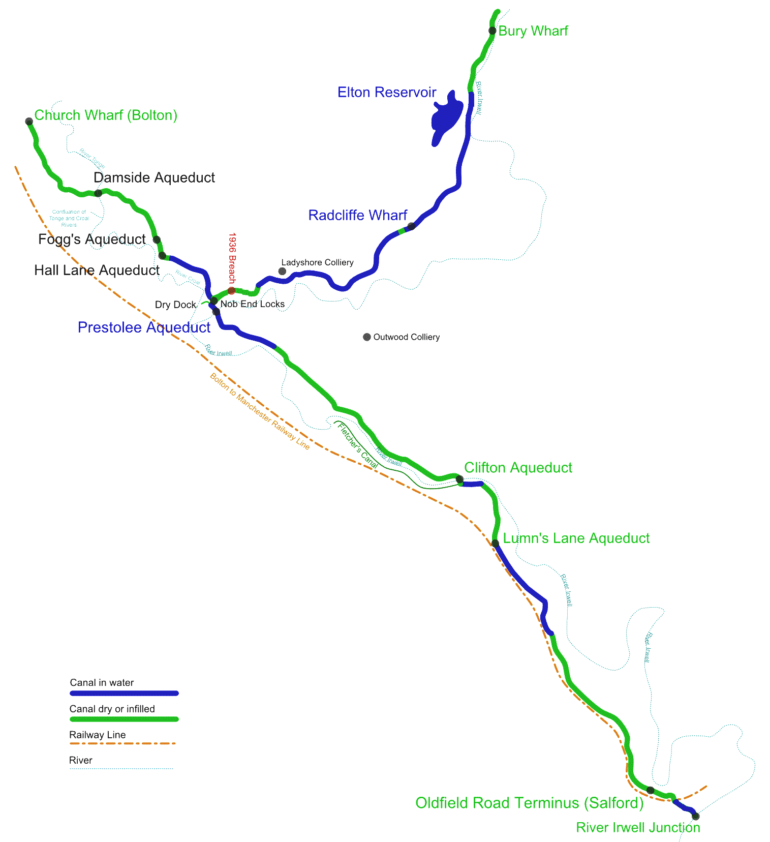 An updated map showing the condition and route of the canal in 2016. This map shows where the canal is in water and where it is dry